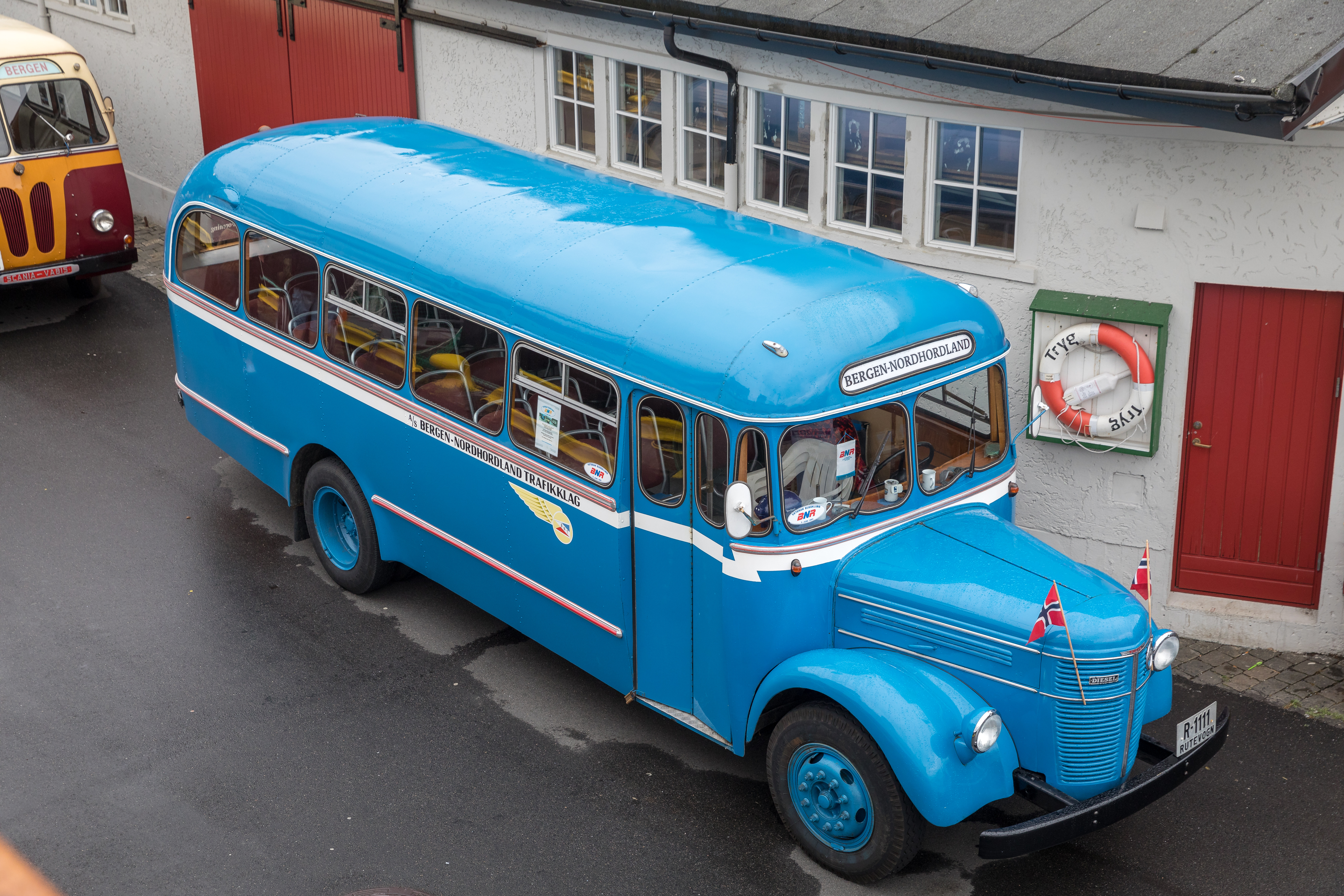 Vintage vehicles at Fjordsteam 2018. The maritime heritage festival took place between August 2 and August 5 2018 in Bergen, Norway.